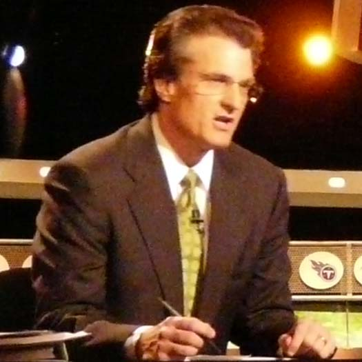 Mel Kiper Jr. NFL Draft expert for ESPN during the network's broadcast of the 2009 NFL Draft at the Radio City Music Hall in New York City. This file has been extracted from another file: 2009 ESPN NFL Draft Main Set.jpg